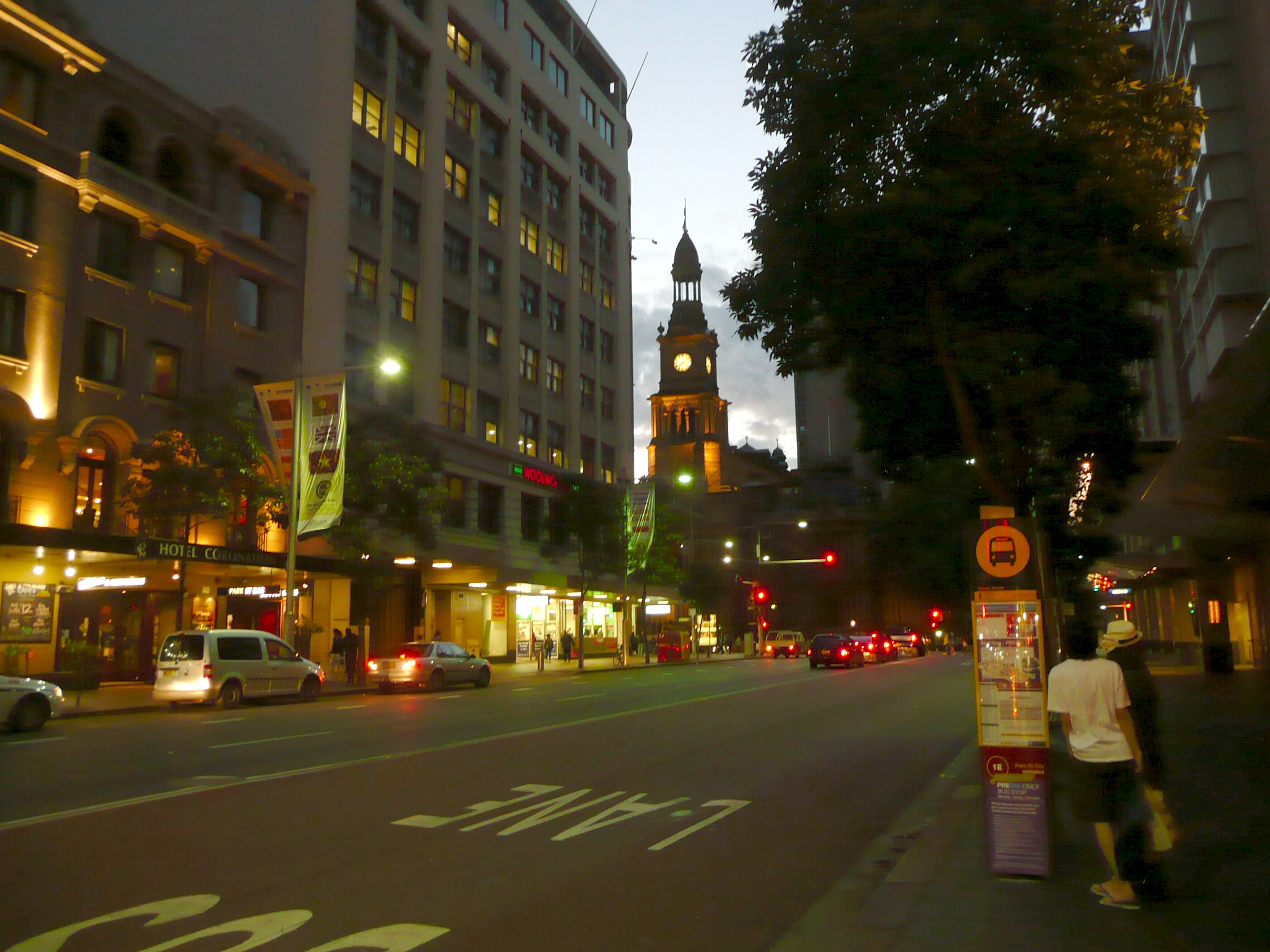 park street, sydney